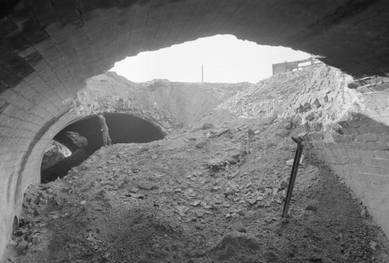 Royal Air Force Bomber Command, 1942-1945. Damage caused to a railway tunnel by a deep-penetration bomb at La Chapelle marshalling yards near Paris, France as a result of Operation POINTBLANK sorties.